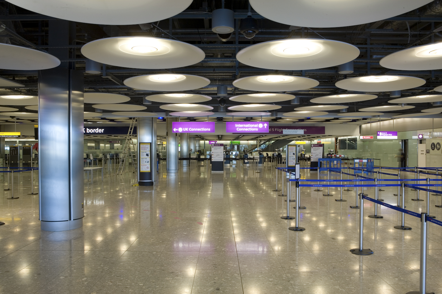 Heathrow Terminal 5 – Flight Connections